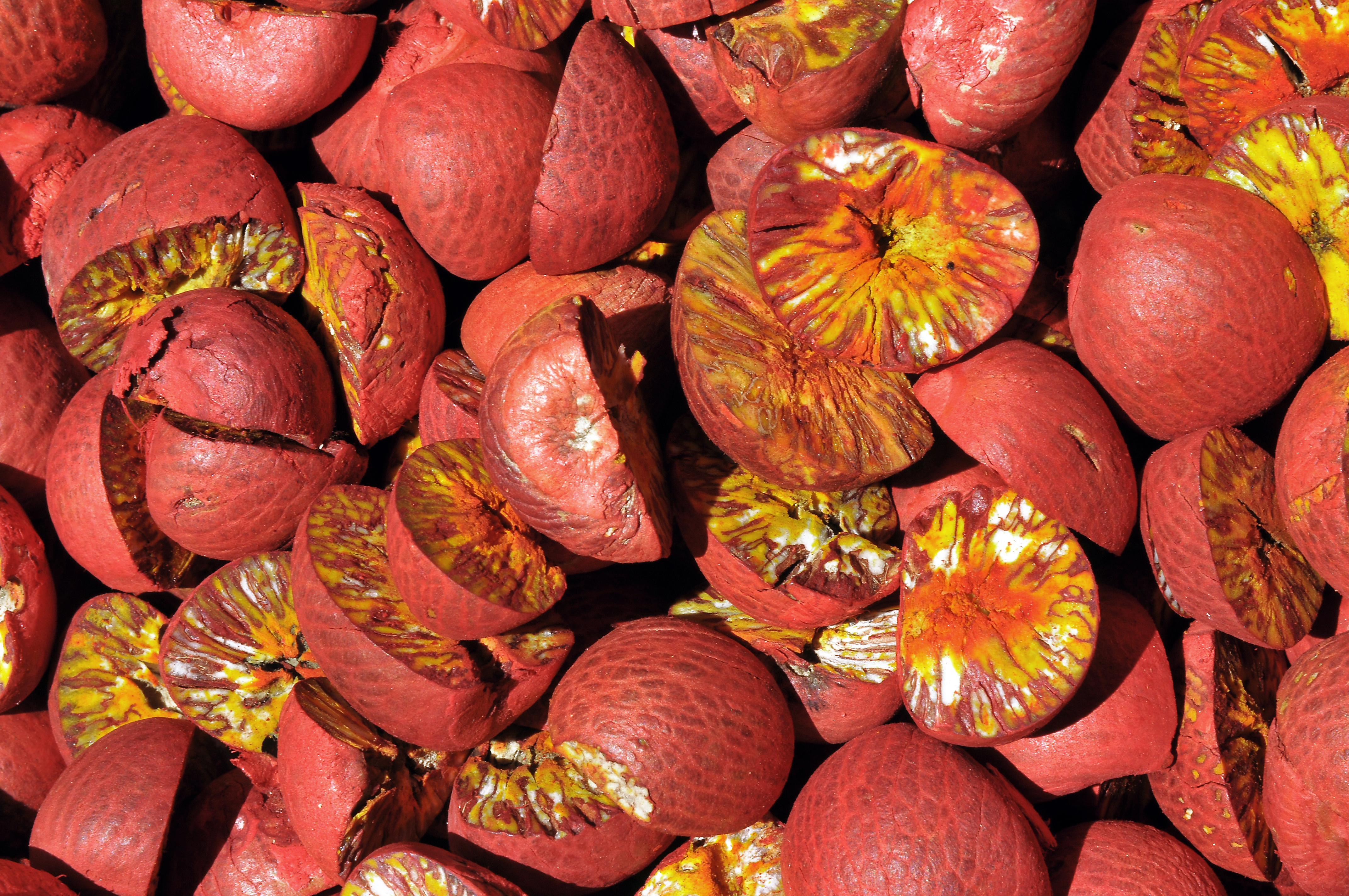 Coloured areca nuts [Areca catechu] in the market. Bago, Burma [Myanmar] It is this red color that determines the color of the spits of the people who consume the "paan"